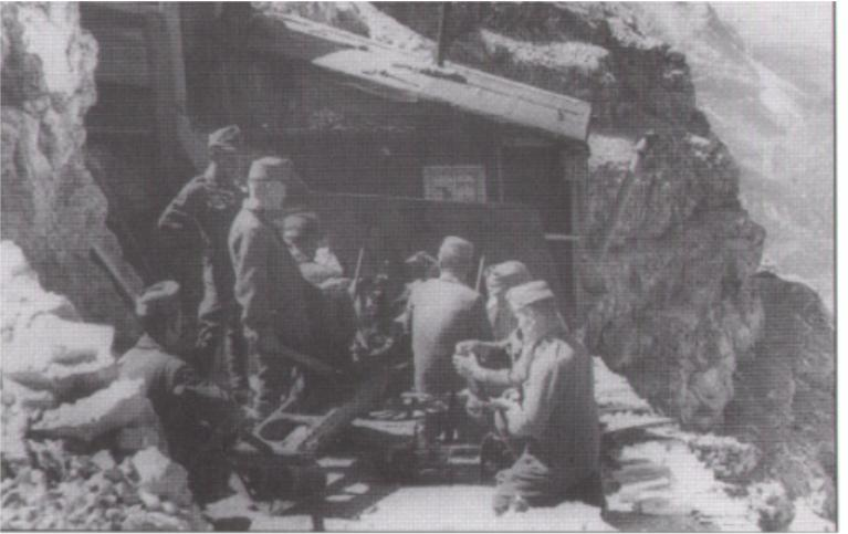 Mountain Artillery piece